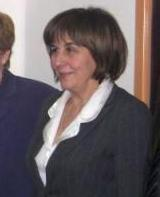 Dr. Giuli Alasania, Vice Rector of International Black Sea University.